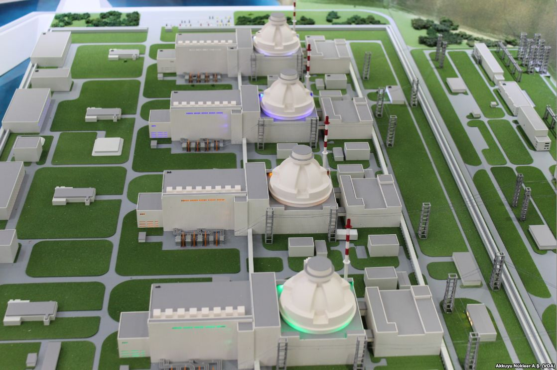 A model of the Akkuyu Nuclear Power Plant in Mersin, Turkey